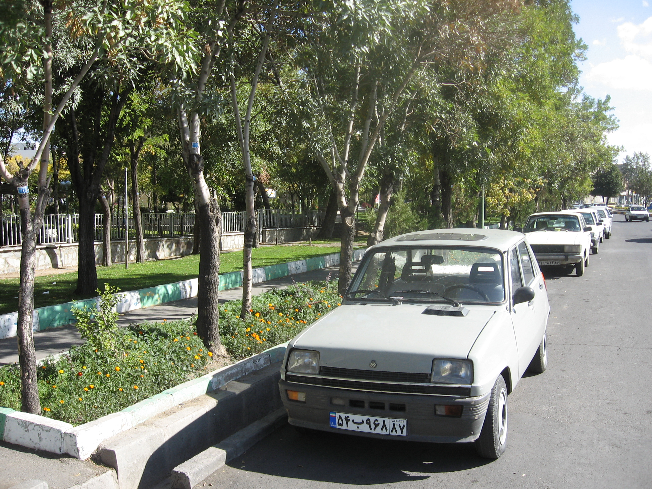 Saipa 5 - Daily life in Zanjan